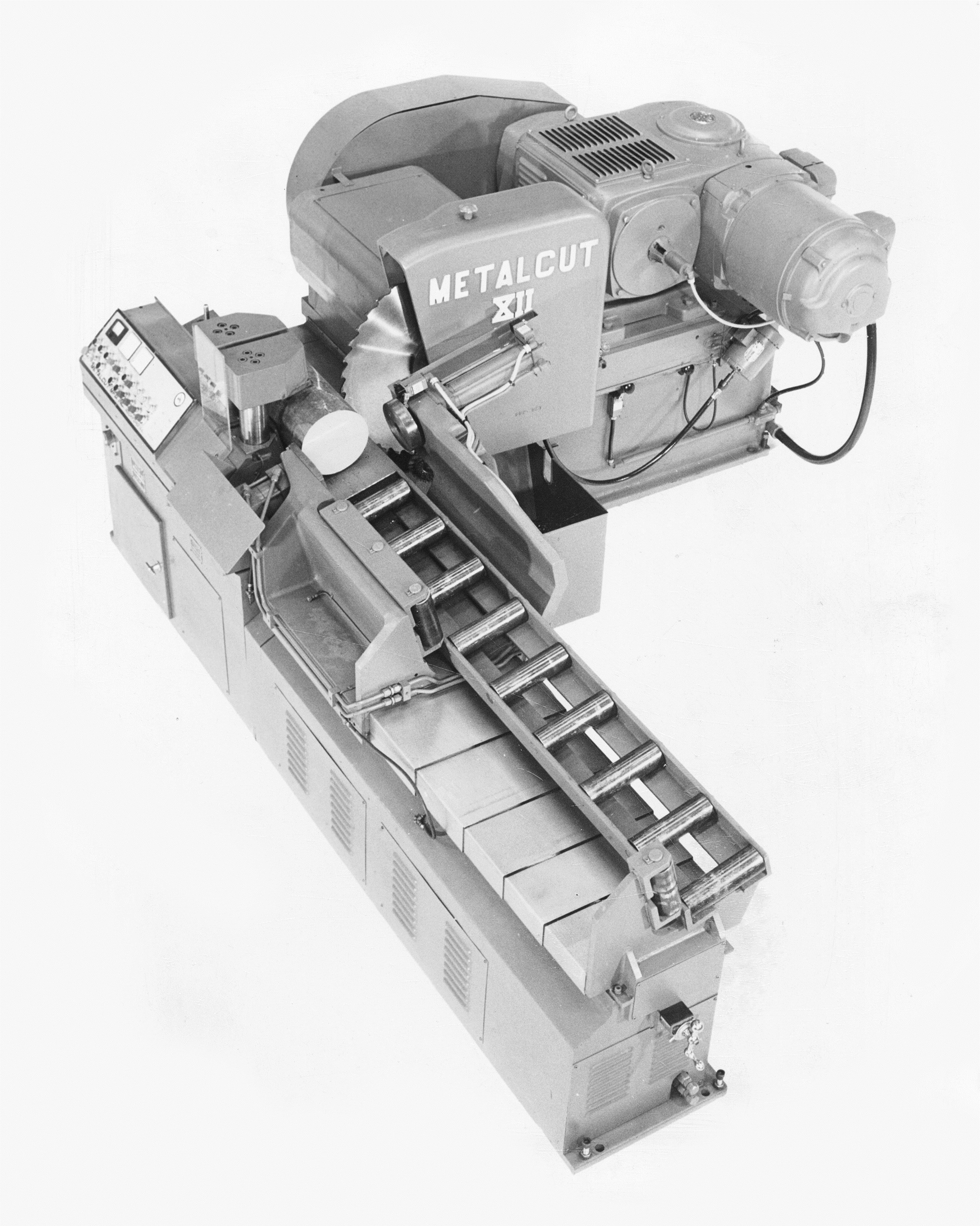 Production Carbide Saw